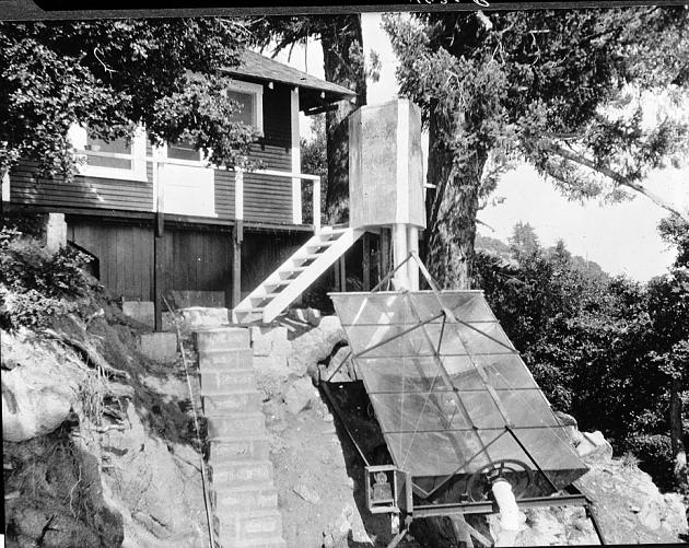 Astrophysicist Dr. Charles Greeley Abbot's solar cooker, which cooks food by solar energy, at Mount Wilson, California. Dr. Abbot was the fifth Smithsonian Institution Secretary from 1928 to 1944, and director of the Smithsonian Astrophysical Observatory from 1907-1944. From 1905 through the 1930s, the Astrophysical Observatory used the telescopes at Mount Wilson